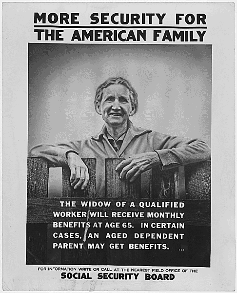 Social Security Poster: widow